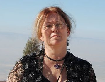 Bozena M. Dolegowska-Wysocka